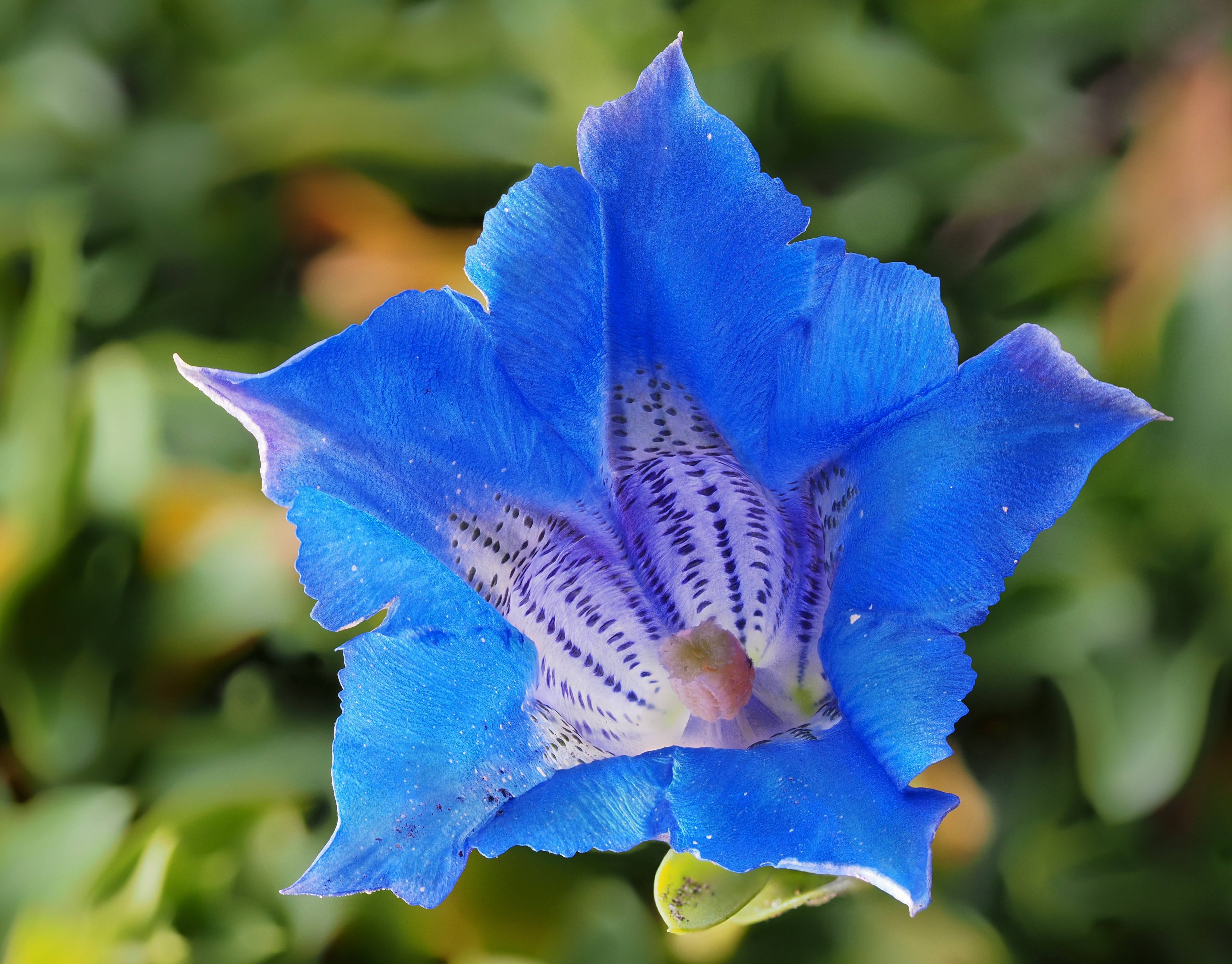 Macro photography of Gentiana acaulis (stemless gentian) in Ljubljana Botanical Garden, Slovenia. Diameter of flower is around 15-20 mm. This photograph was taken with an Olympus E-M1